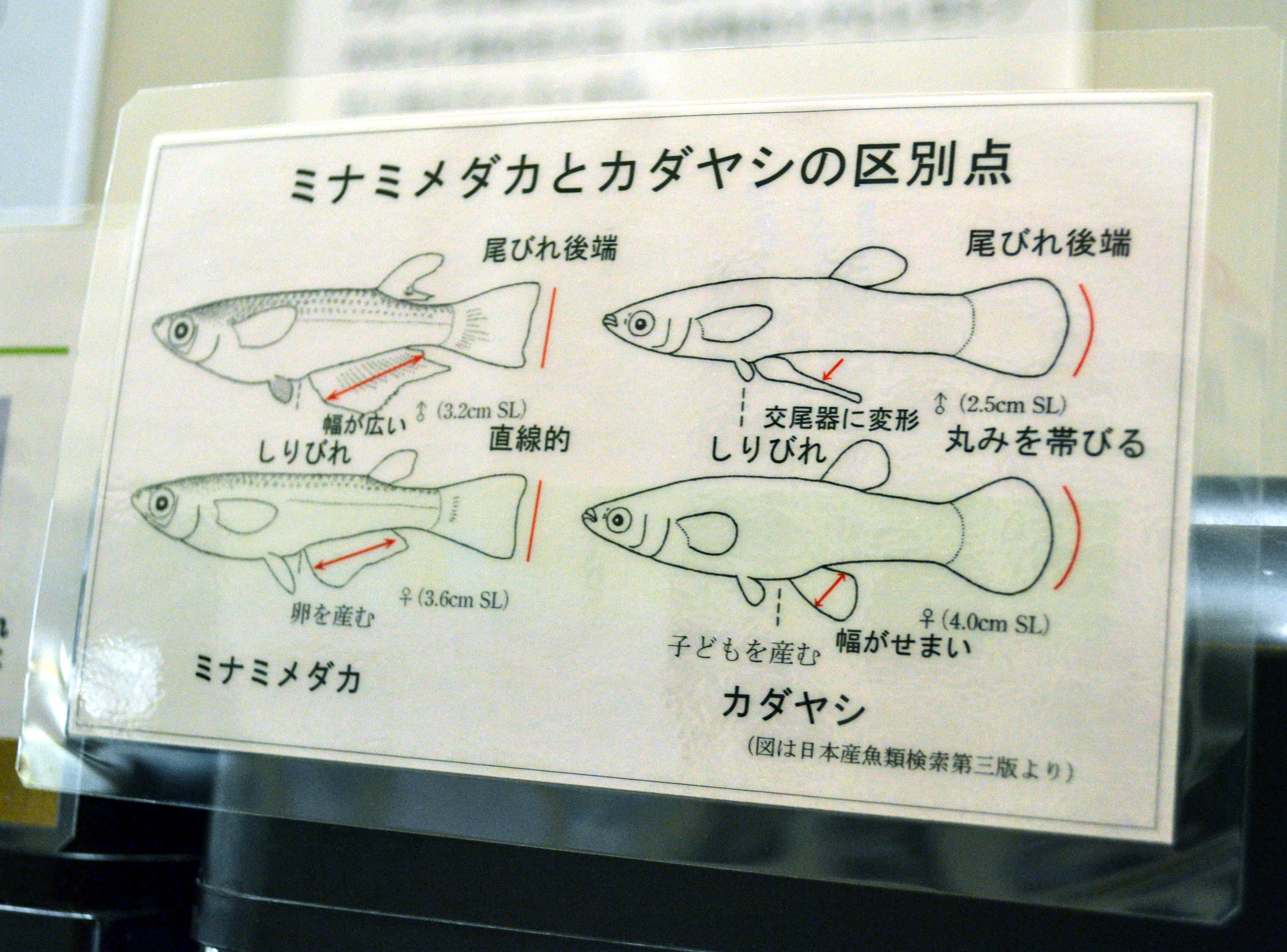 Difference between Oryzias latipes and Gambusia affinis. In Osaka Museum of Natural History.